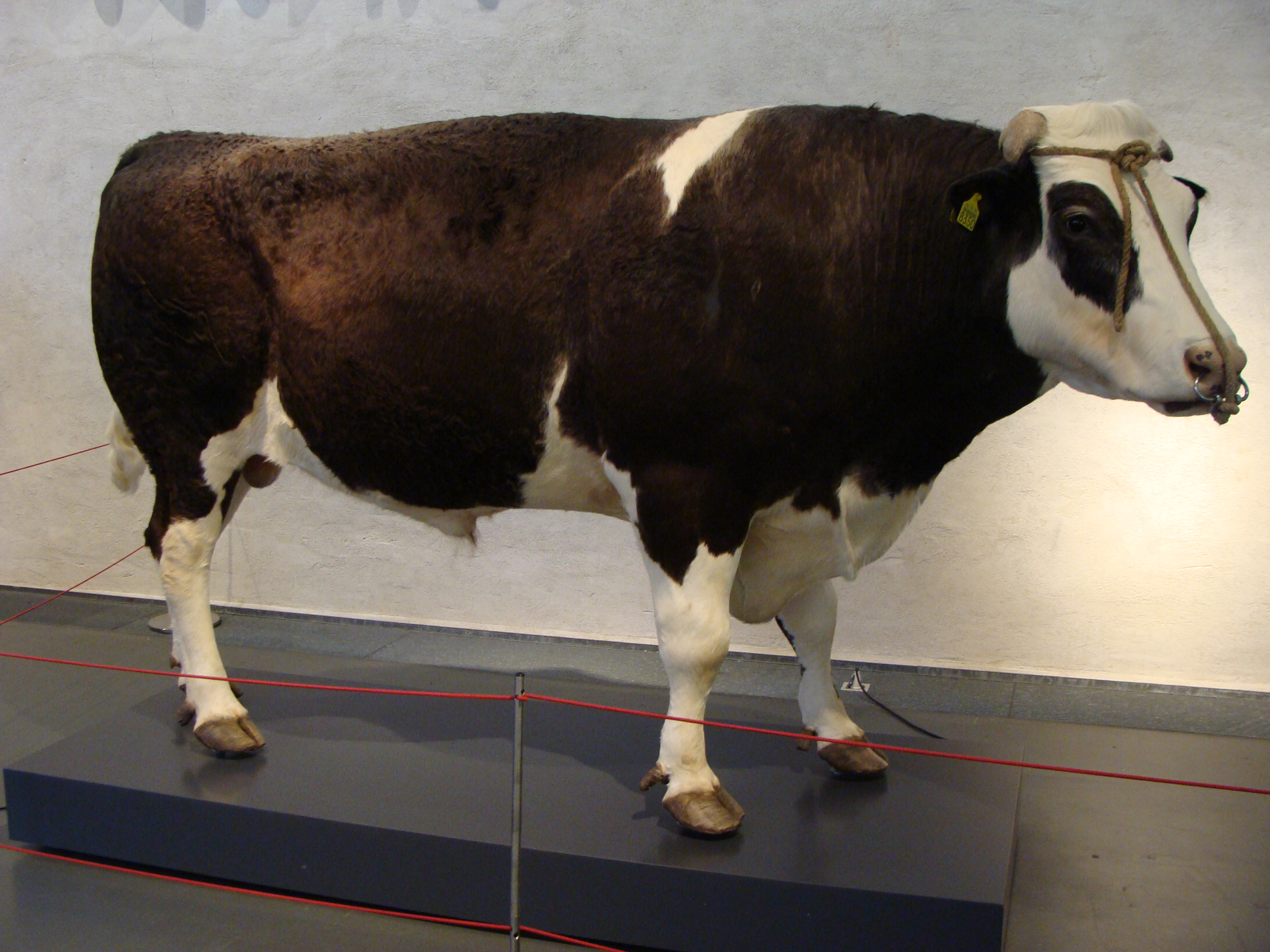 Bull Herman (Lelystad, 16 December 1990 – Leiden, 2 April 2004), the first non human mammal with human DNA and first genetically engineered animal on exibit in the National Museum of Natural History 'Naturalis' in Leiden, the Netherlands.